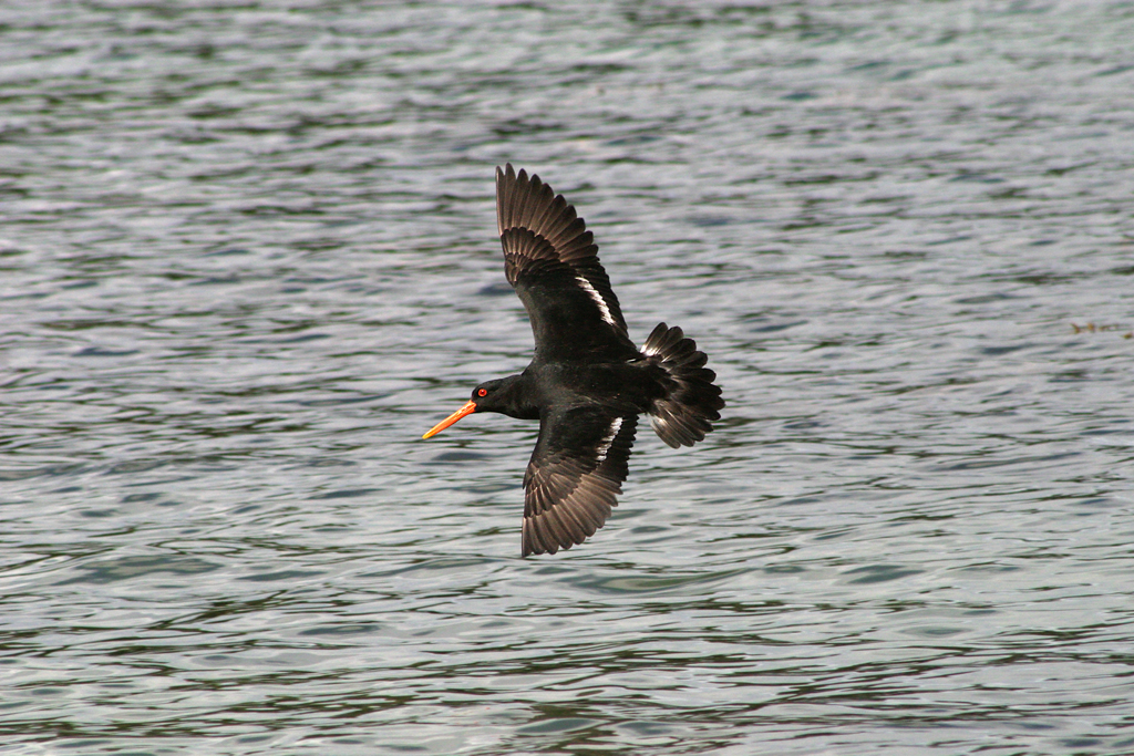 This bird is an endemic bird of New Zealand with a Maori name of Torea-Pango.